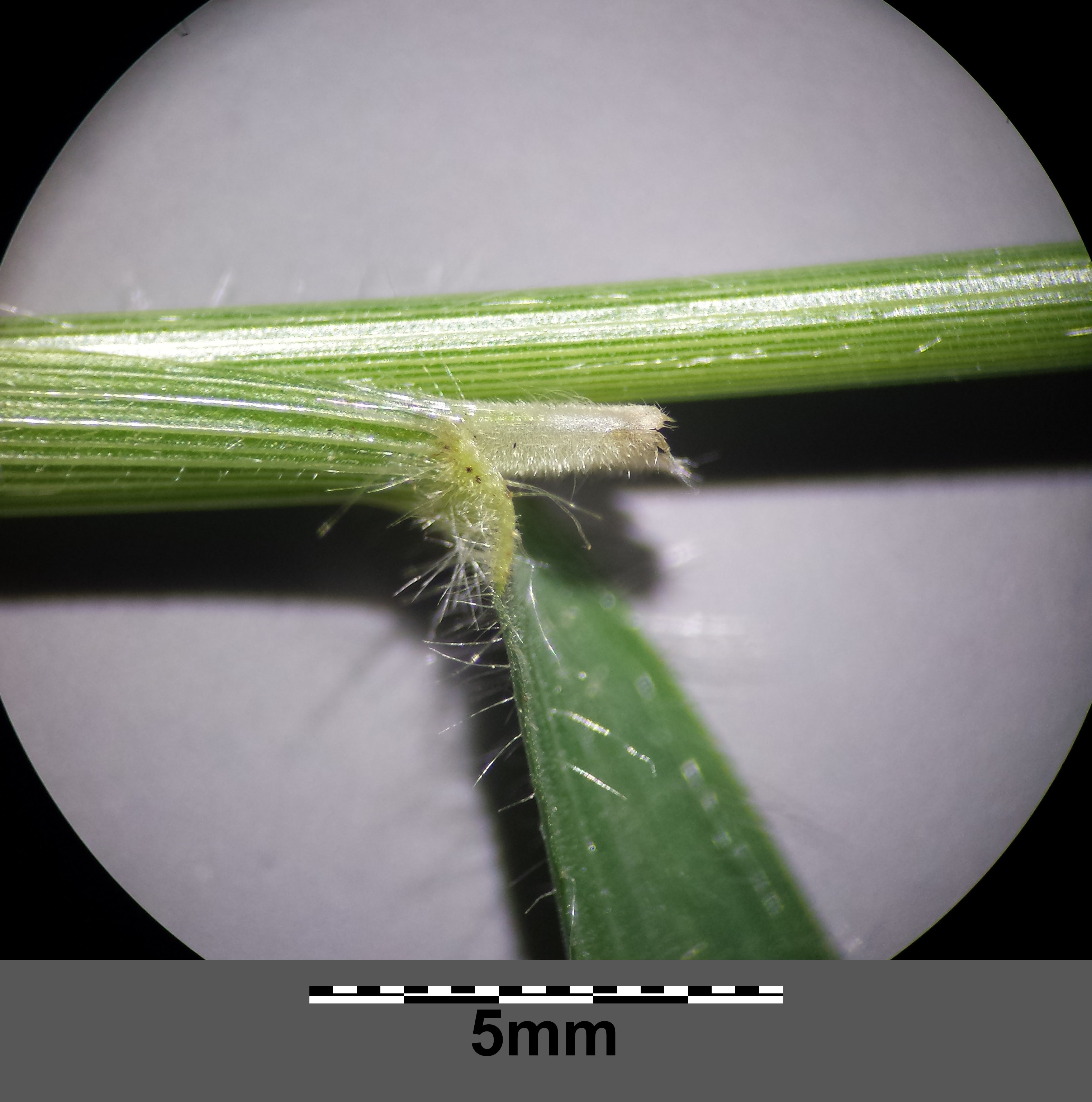 Stem with leaf sheath and ligule Taxonym: Brachypodium sylvaticum (subsp. sylvaticum) ss Fischer et al. EfÖLS 2008 ISBN 978-3-85474-187-9 Location: Kalte Stube near Puch, district Hollabrunn, Lower Austria - ca. 290 m a.s.l. Habitat: path within a wood